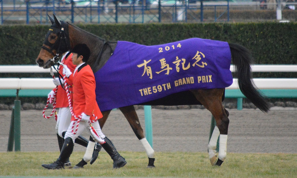 Japanese race horse Gentildonna at Nakayama racecourse. Nakayama (JPN) 28 Dec 2014Arima Kinen (The Grand Prix) (Grade 1) (3yo+) (1m4f110y) Firm RankHorse NameOddsAgeWgtTrainerJockey1stGentildonna (JPN)77/10M58-9Sei IshizakaKeita Tosaki2ndTo The World (JPN)30/1C38-9Yasutoshi IkeeWilliam BuickOthers are omitted. (16 horses entered in a race.)